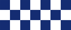 Sillitoe Tartan in blue, the chequered pattern commonly associate with police.